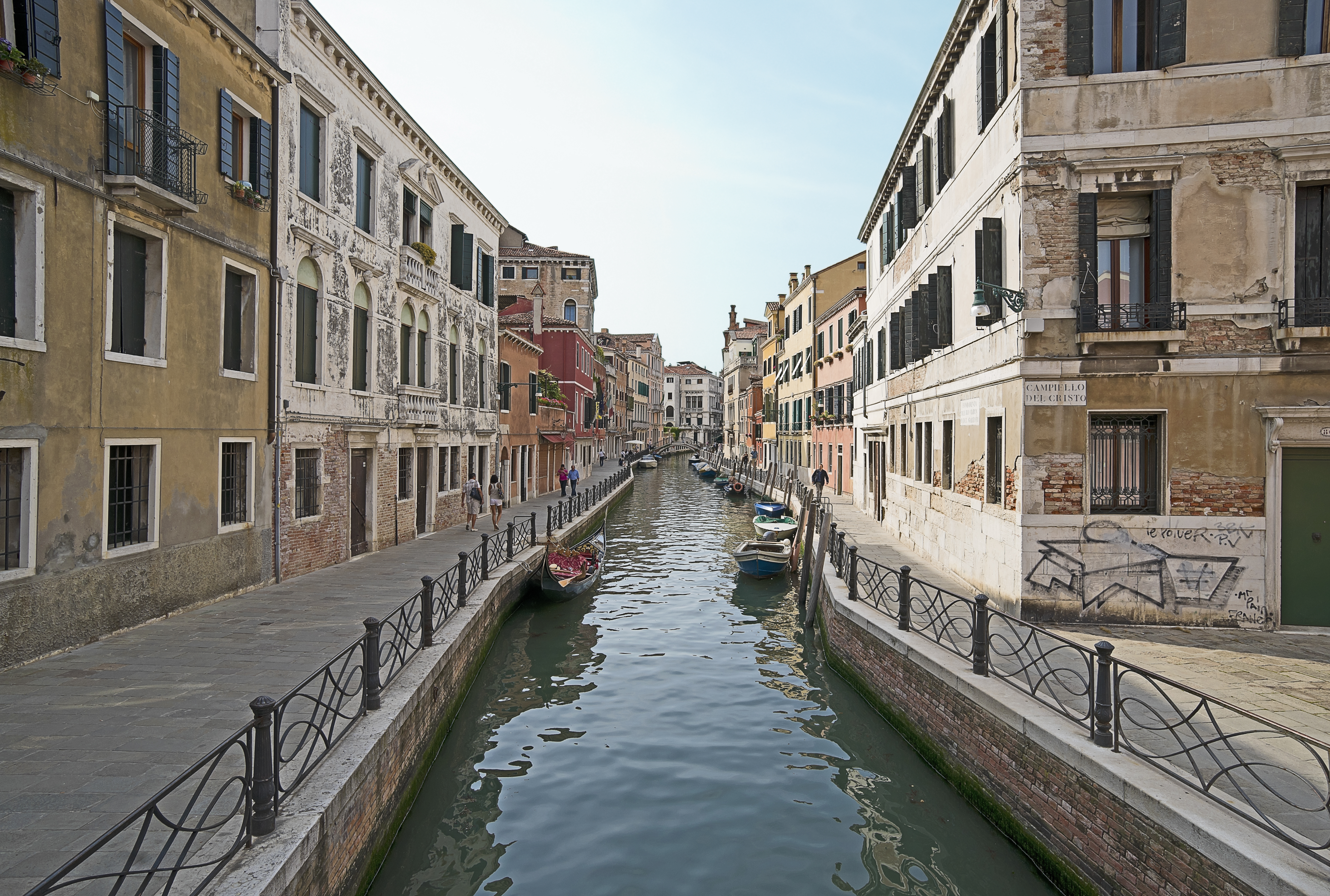 Rio marin view on the “ponte del Cristo”, Venice